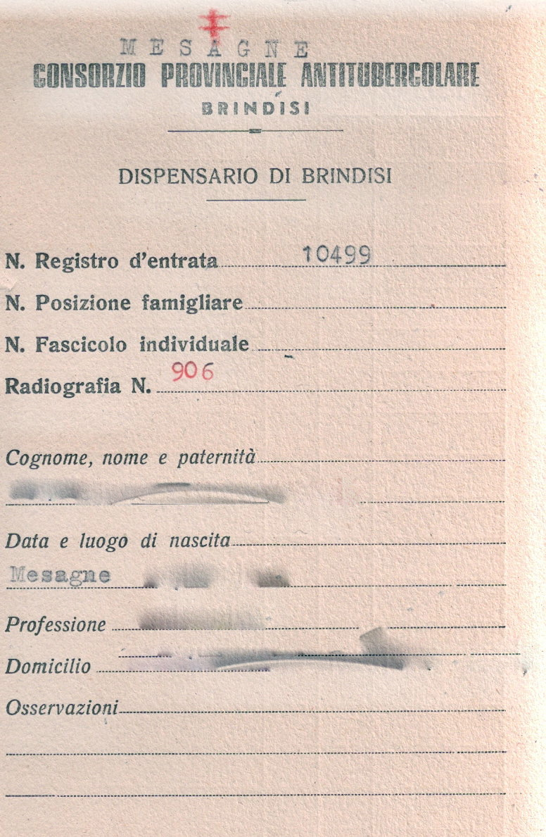 consorzio provinciale